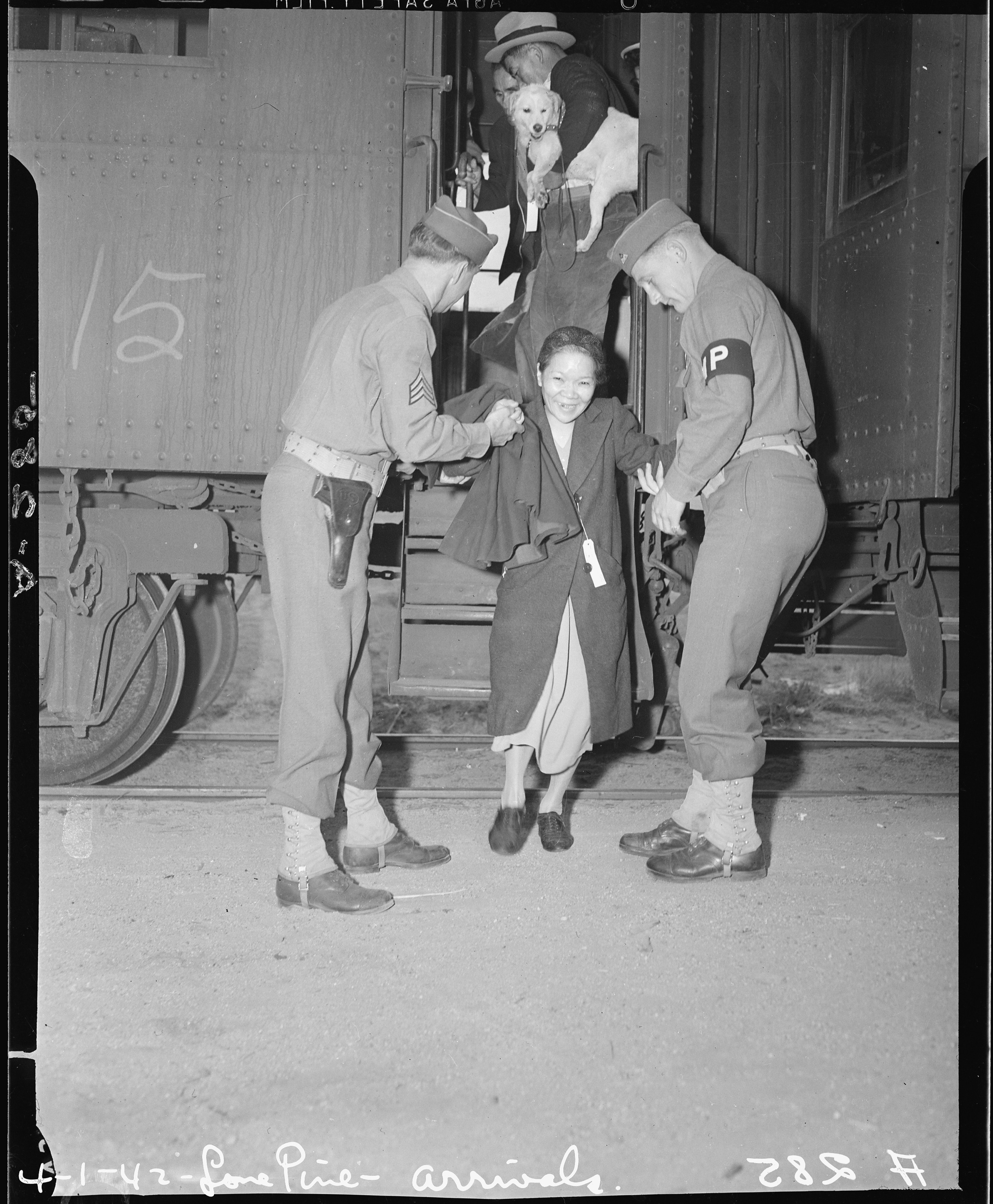 Scope and content: The full caption for this photograph reads: Lone Pine, California. Soldiers assist elderly evacuee of Japanese descent leave car steps in transfer to War Relocation Authority center at Manzanar.